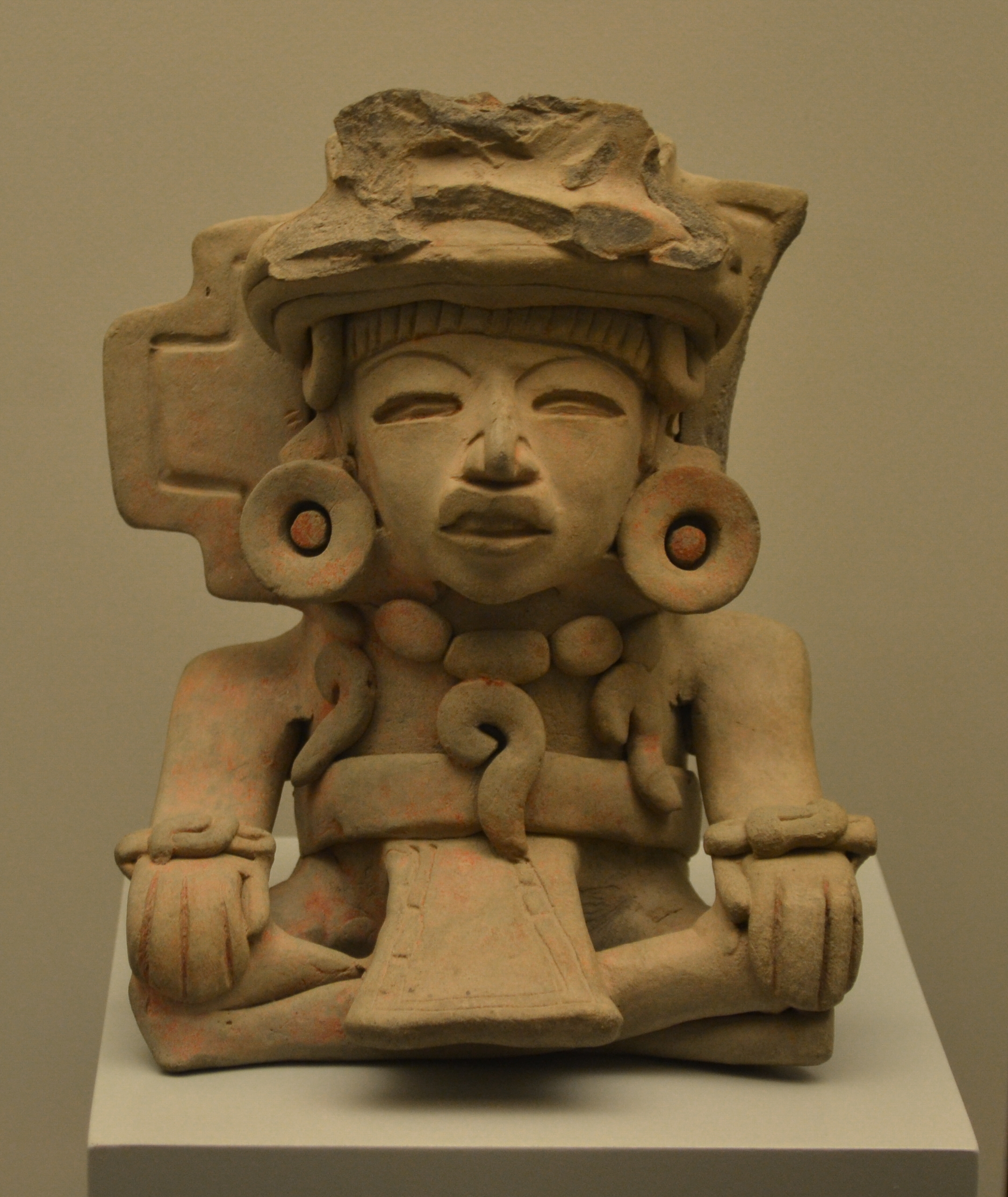 Painted ceramic representing a sitting person. Zapotec Culture (Monte Albán III phase), Early Classic and Middle Classic Periods. (100-700 AD) Museum of the Americas, Madrid. Inv. number 2592